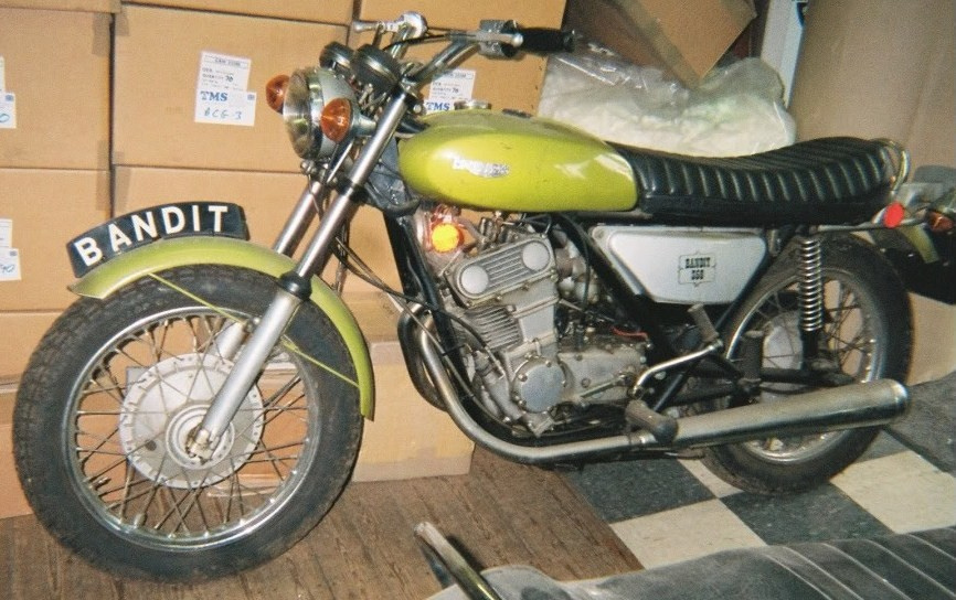 Rare 1971 350cc Triumph Bandit concept-designed by Edward Turner but production-designed by Bert Hopwood and Doug Hele. Costing problems meant that it was never mass-produced.